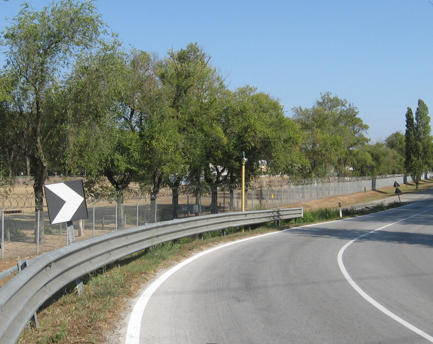 View from SP22-road-bridge across canal Pisa-Livorno